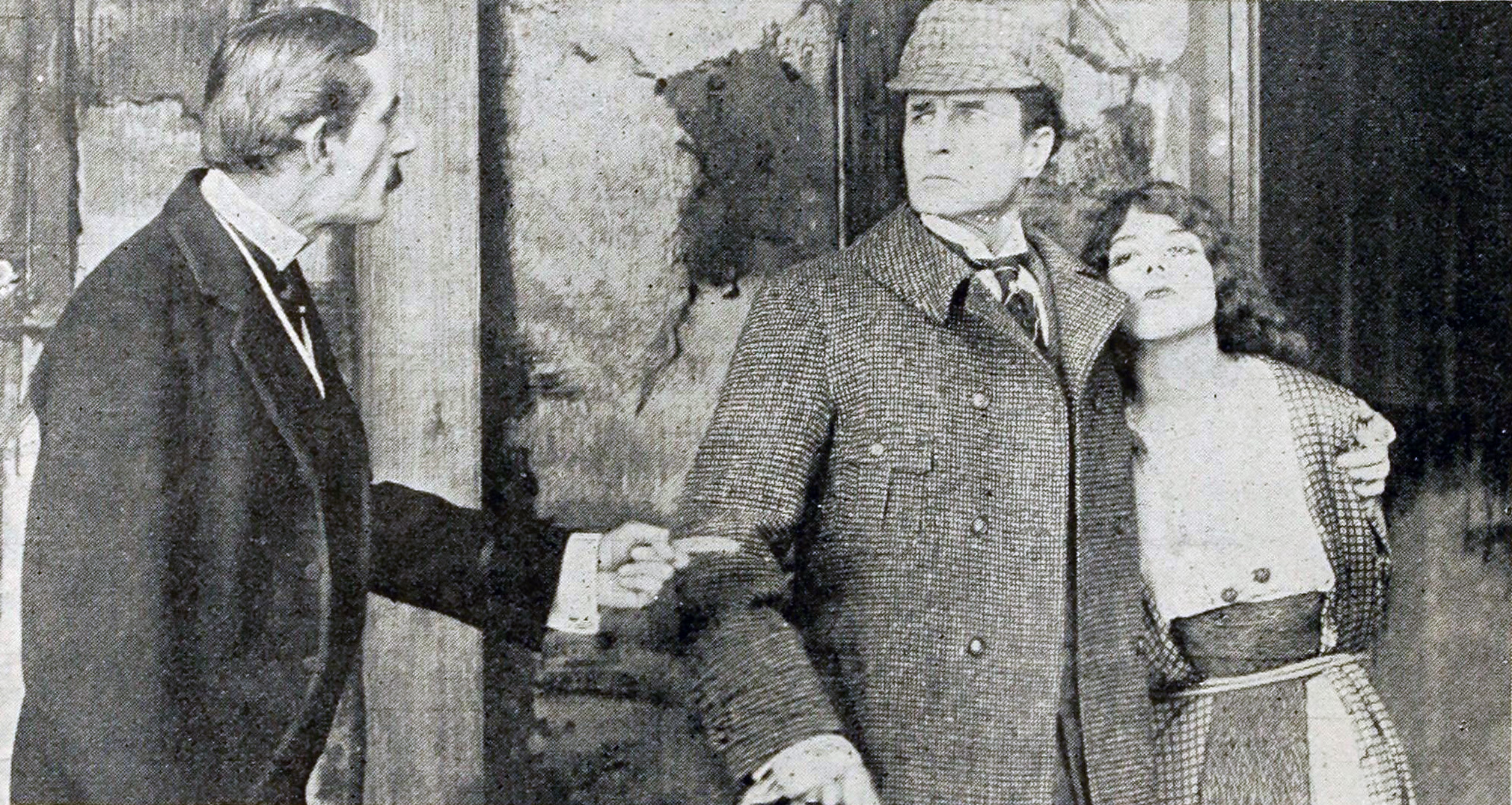 Advertisement in The Moving Picture World for the American drama film Sherlock Holmes (1916).